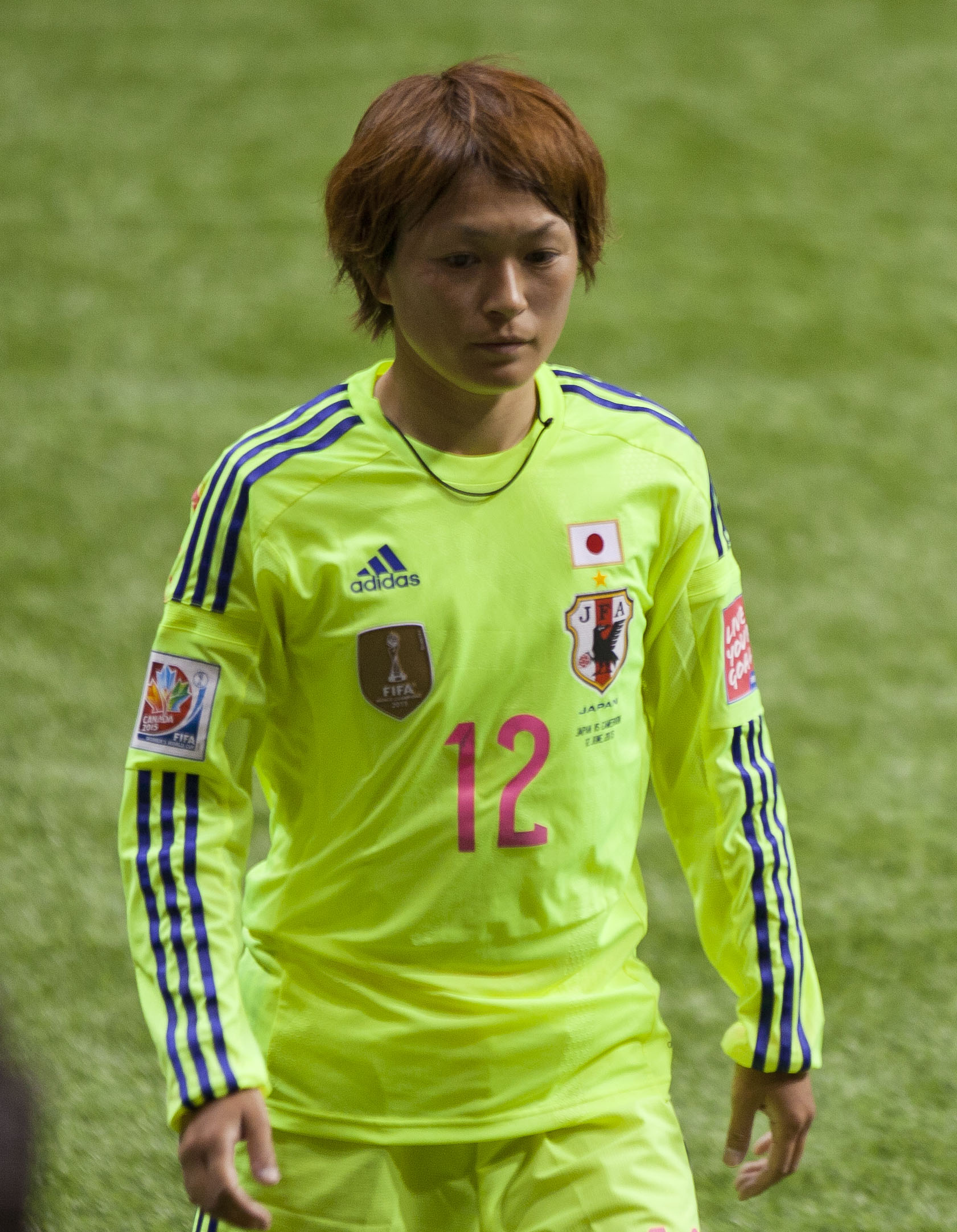 FIFA Women's World Cup Canada June 12th, 2015